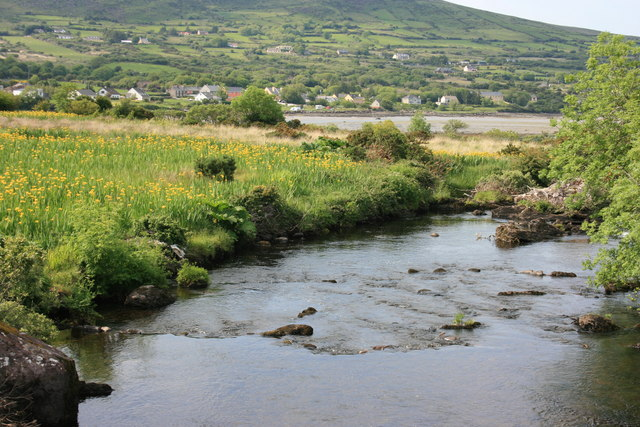 River Owenmore at Boher Bridge. Looking downstream over the River Owenmore, which rises on Brandon Mountain; taken from the bridge where the R585 crosses the river. The houses of Cloghane can be seen clustering along the edge of the tidal Owenmore estuary which flows into Brandon Bay. See 1415320